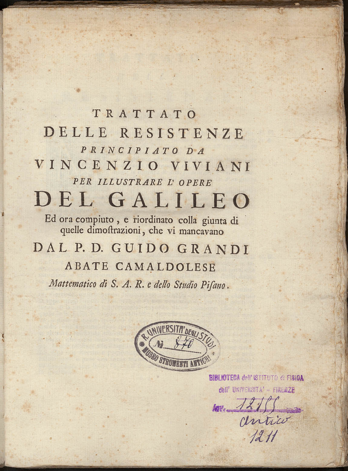 Title-page of Trattato delle resistenze by Vincenzo Viviani completed by Guido Grandi (Florence, 1718)